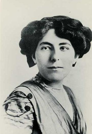 Edna Ferber (1885-1968), american novelist and playwright : "Portrait after winning state oratory contest and graduating from Ryan High School".